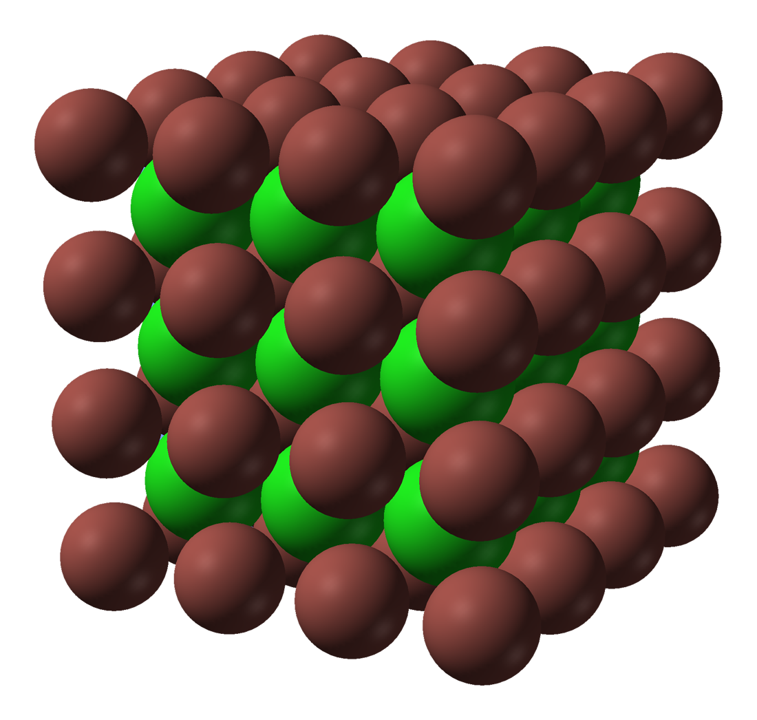 Space-filling model of part of the crystal structure of thallium(I) chloride, TlCl. X-ray crystallographic data from R. W. G. Wyckoff (1963) Crystal Structures 1 (2nd ed.), New York City: Interscience, pp. 85-237 Model constructed in CrystalMaker 8.1. Image generated in Accelrys DS Visualizer.